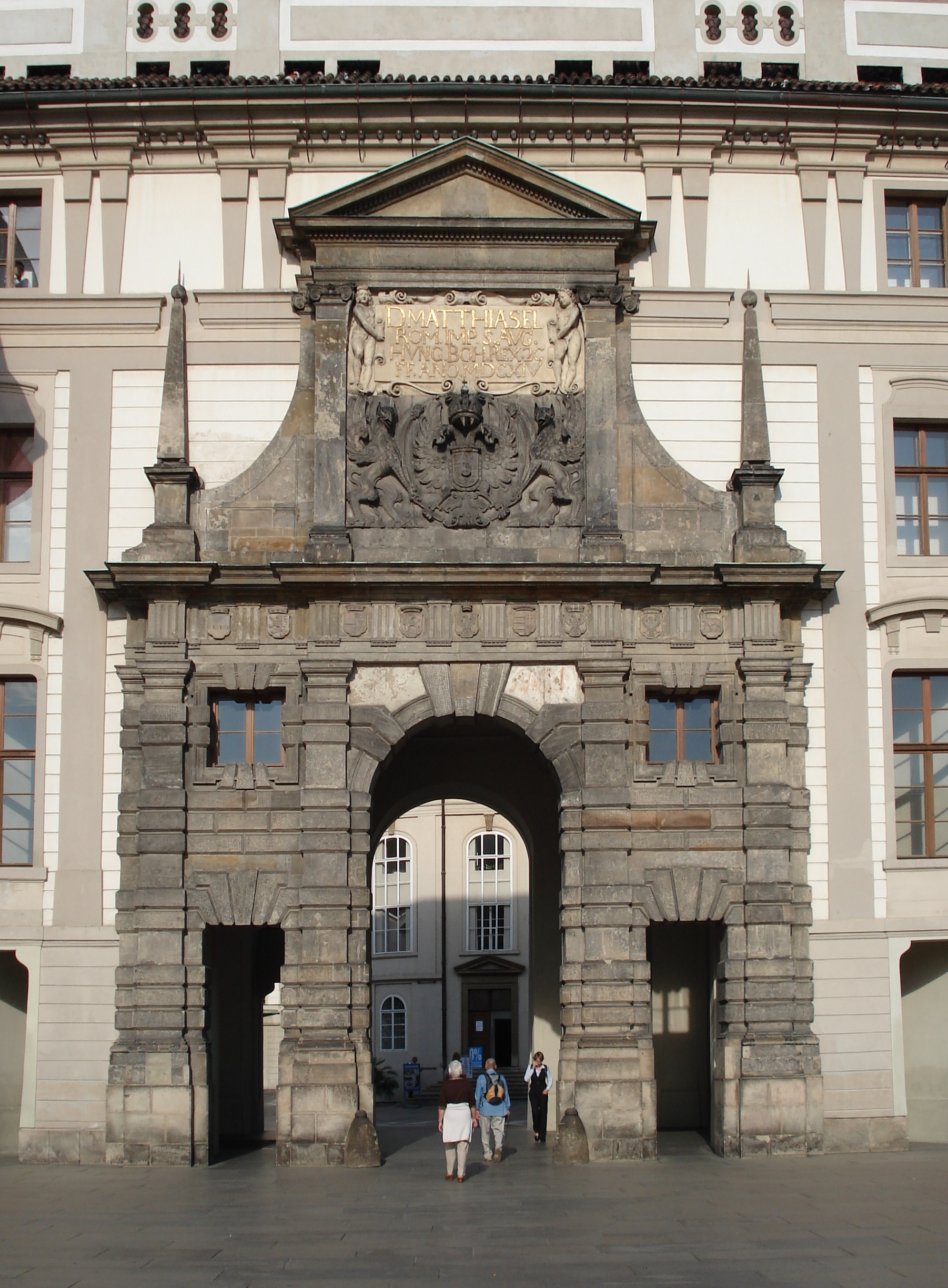 Prague Castle, Mathias gate between the first and the second court-yards